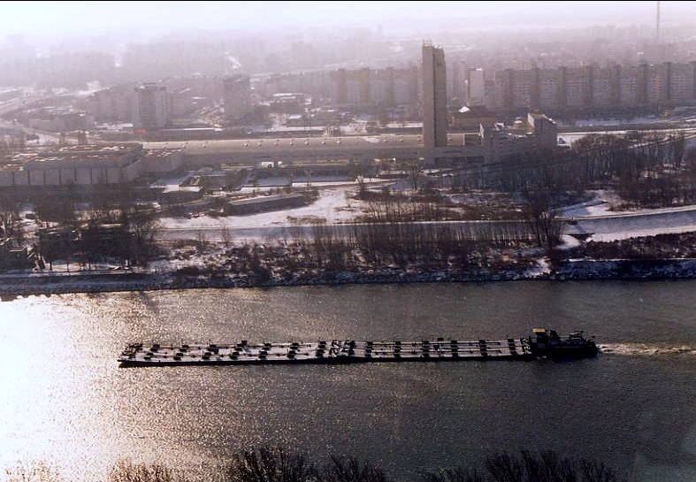 Bratislava, taken in around 2001 or 2002.